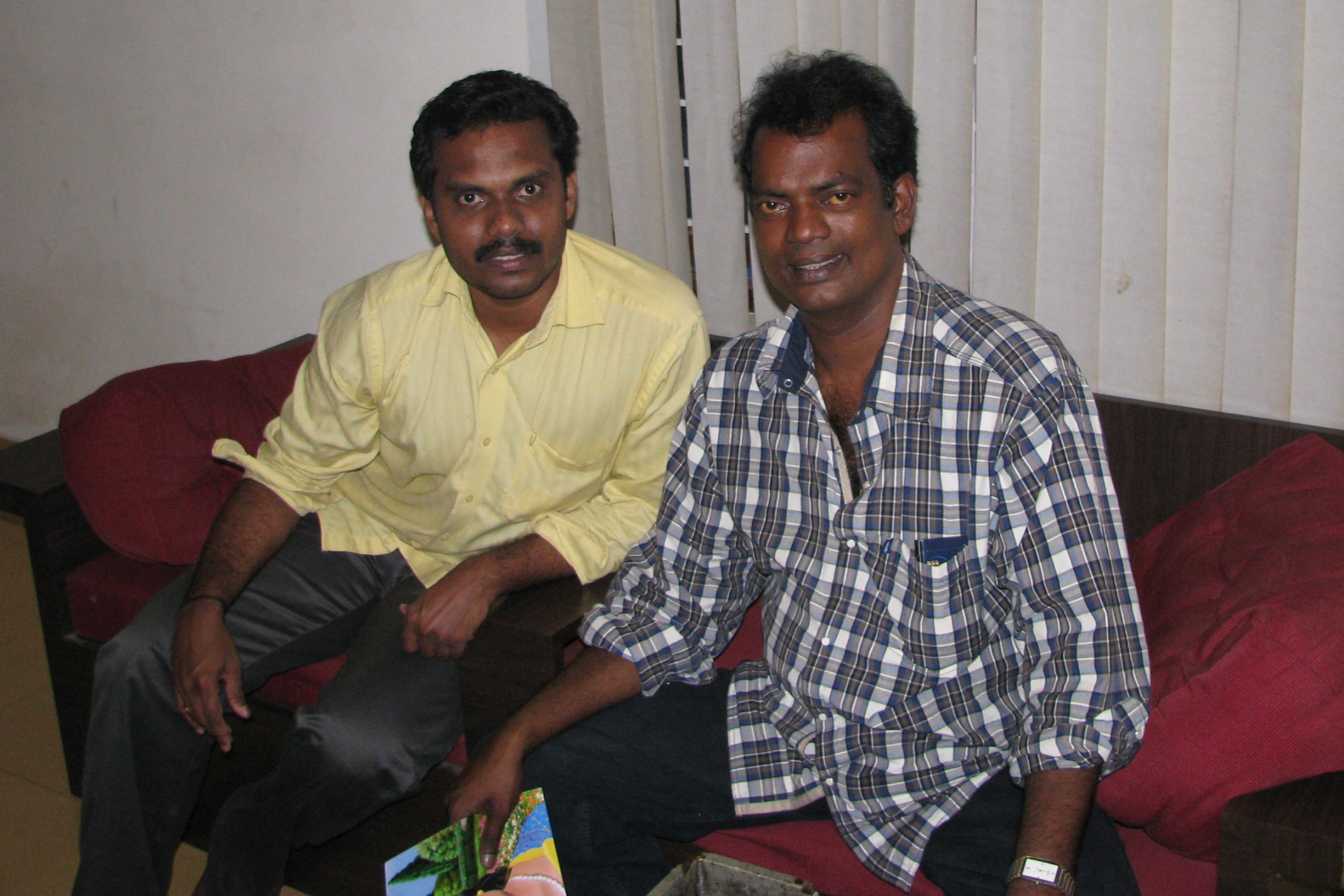 Binu Sasidharan with Actor Salim Kumar